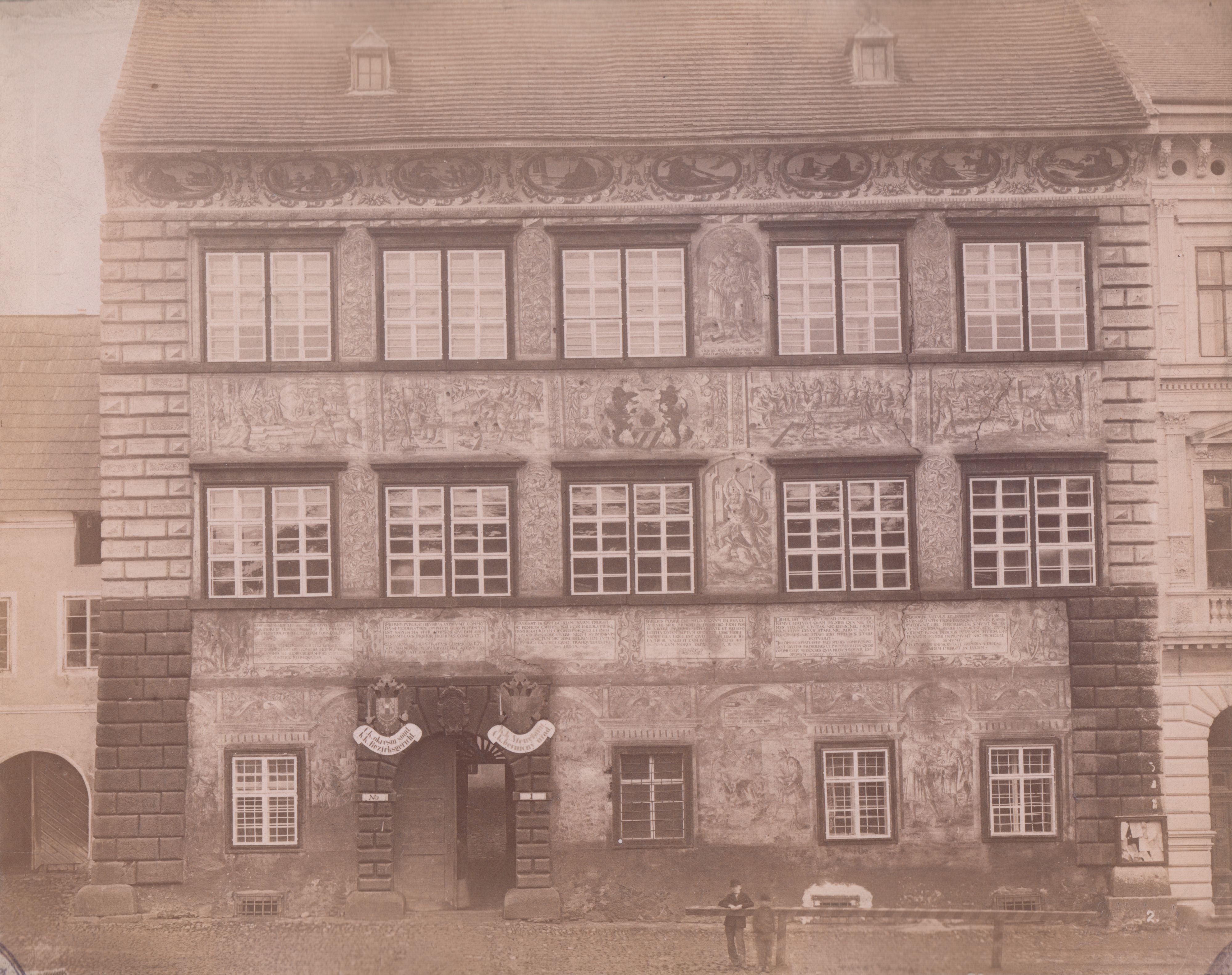 Prachatice, Stará radnice, průčelí do náměstí, asi 1890. Sbírka Prachatického muzea, podsbírka Fotografie, filmy, videozáznamy a jiná média, inventární číslo: K-BH_48. Původně ze sbírky Höhere Mädchenschule un Realgymnasium für Mädchen, hauptstadt Prag.